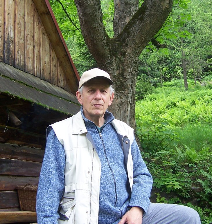 polish poet